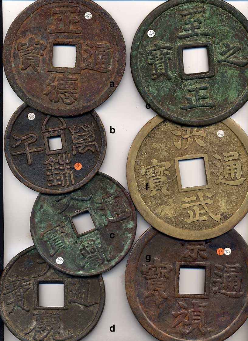 An image of Chinese numismatic charms and amulets provided by Scott Semans.